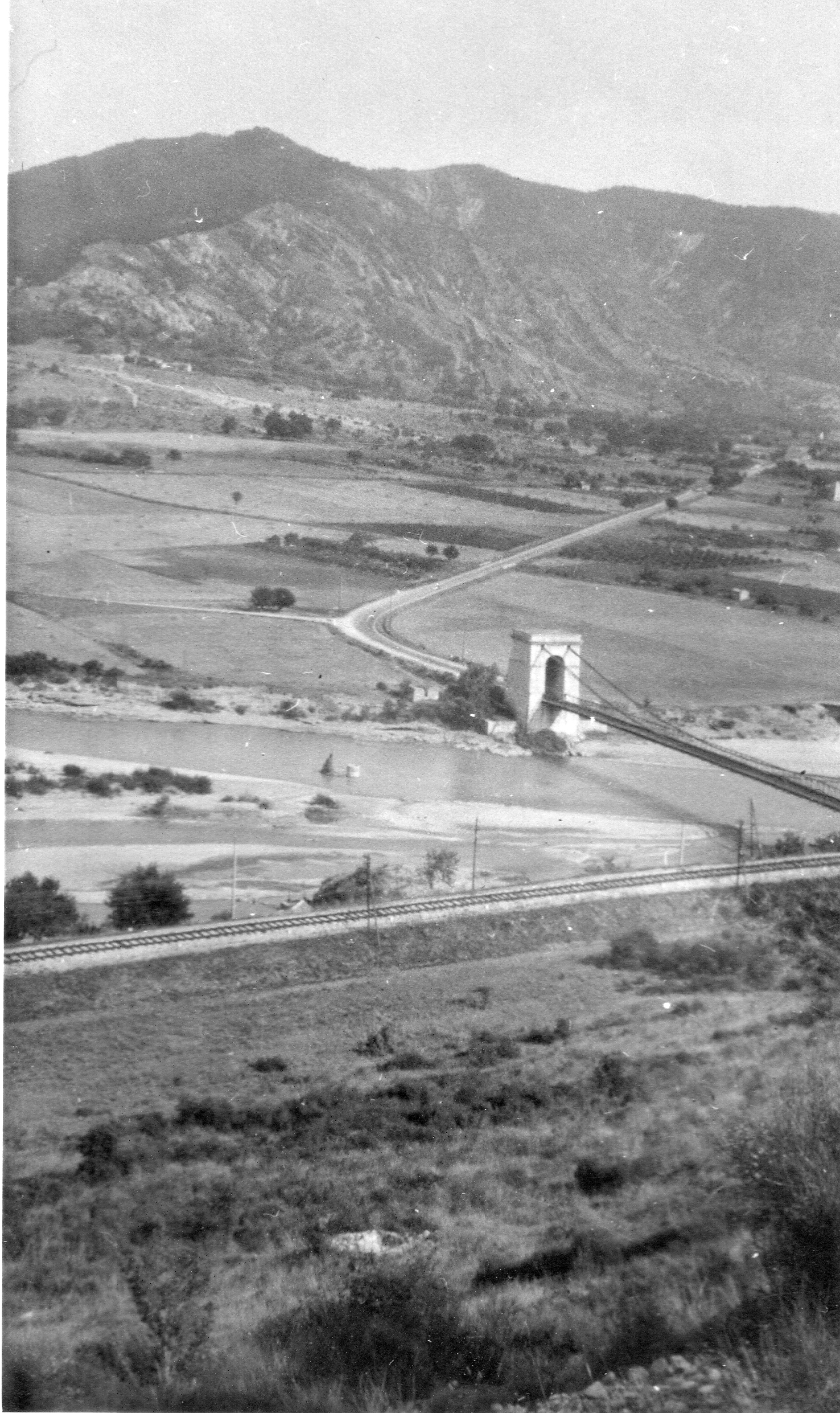 The Bridge of Trébaste over the Durance at Château-Arnoux-Saint-Auban between Sisteron and Gap. The bridge was replaced in 1962